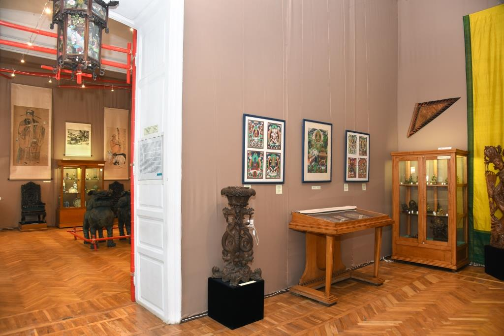 Eastern hall